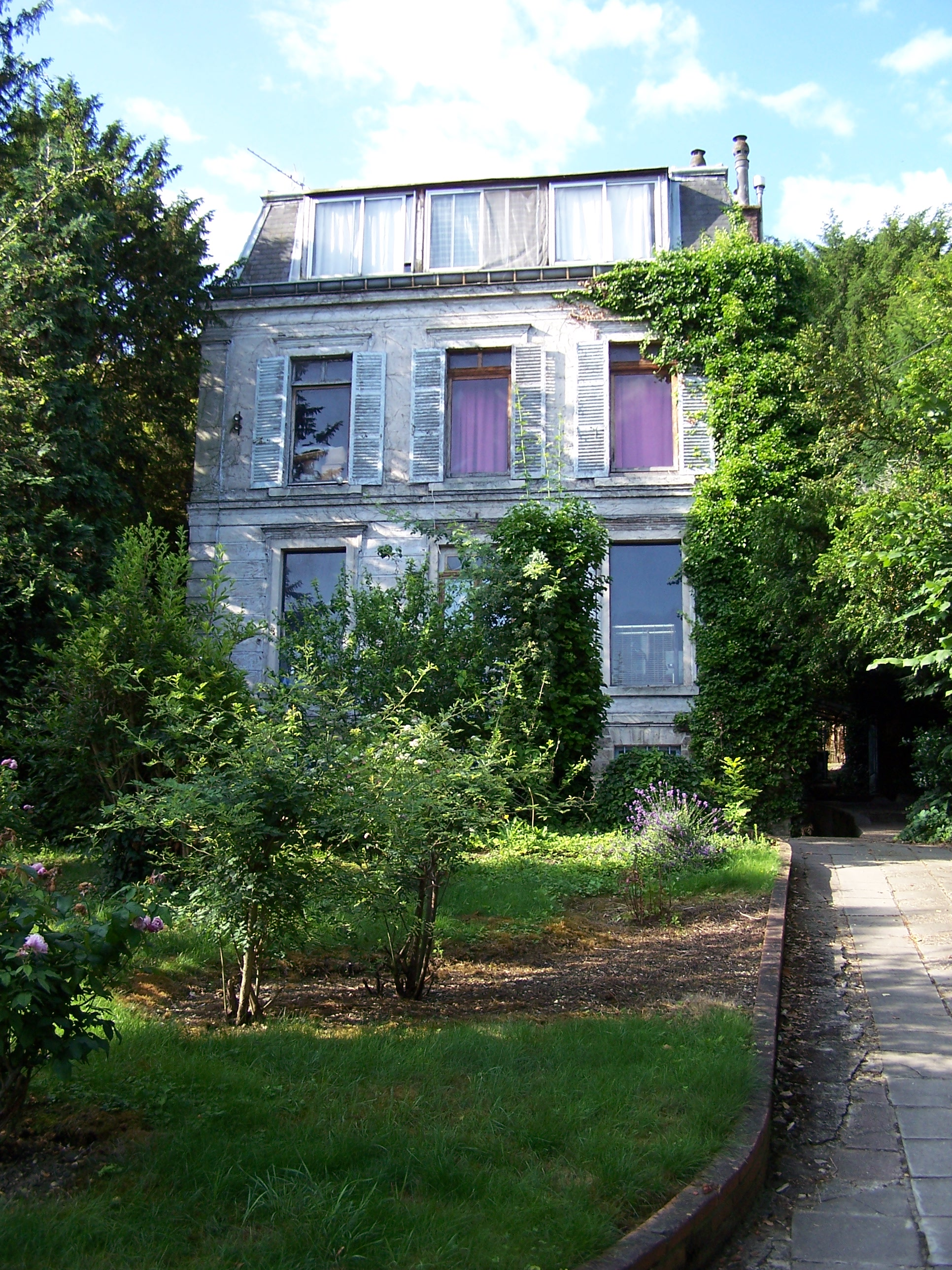 House of the writer Louis-Ferdinand Céline and his wife at route des Gardes, Meudon, France